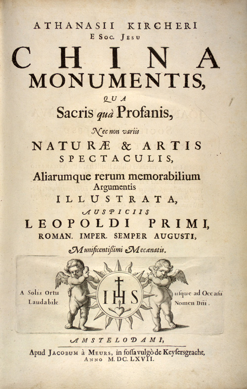 Cover page of Athanasius Kircher's 1667 China Illustrated, published at Amsterdam by Elisée or Elizaeus Weyerstraet and Jan Janszoon van Waesberghe, depicting Adam Schall, an angel, and Matteo Ricci displaying a map of China below SS Francis Xavier and Ignatius Loyola venerating an IHS representing Jesus Christ surrounded by angels. Note the mandarin square on Schall's robe.